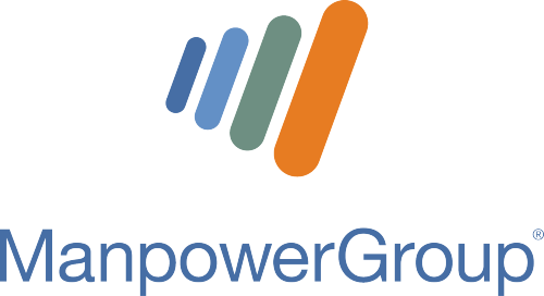 The primary stacked version of the ManpowerGroup corporate logo in use since 2011